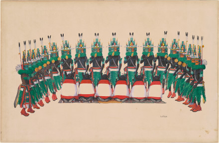 Drawing; gouache on wove paper laid down to board; unframed: 19 1/2 x 30 in. (49.53 x 76.2 cm)